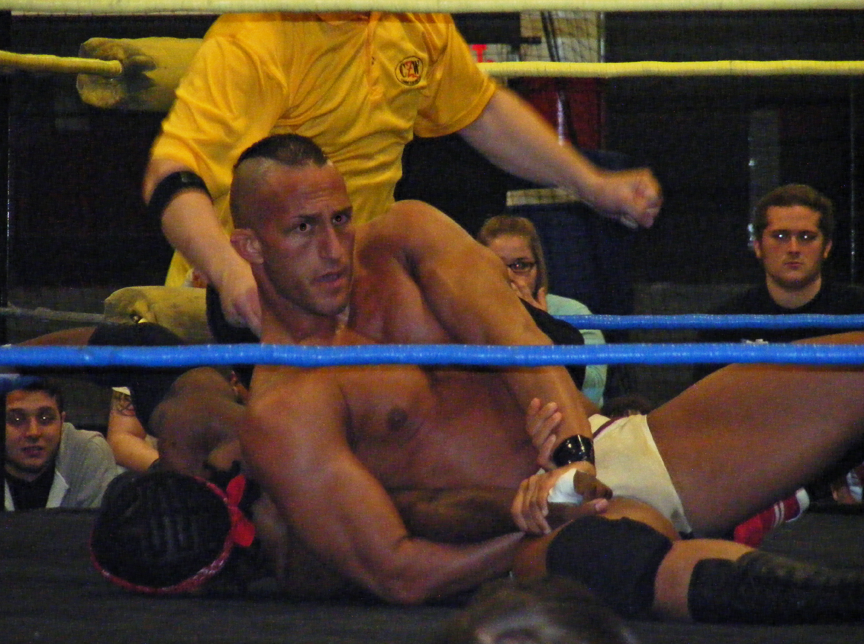 Tommaso Ciampa with an armbar on "BLK JEEZ" Sabian at a Combat Zone Wrestling show in Tyngsboro, Massachusetts, on October 16, 2010.